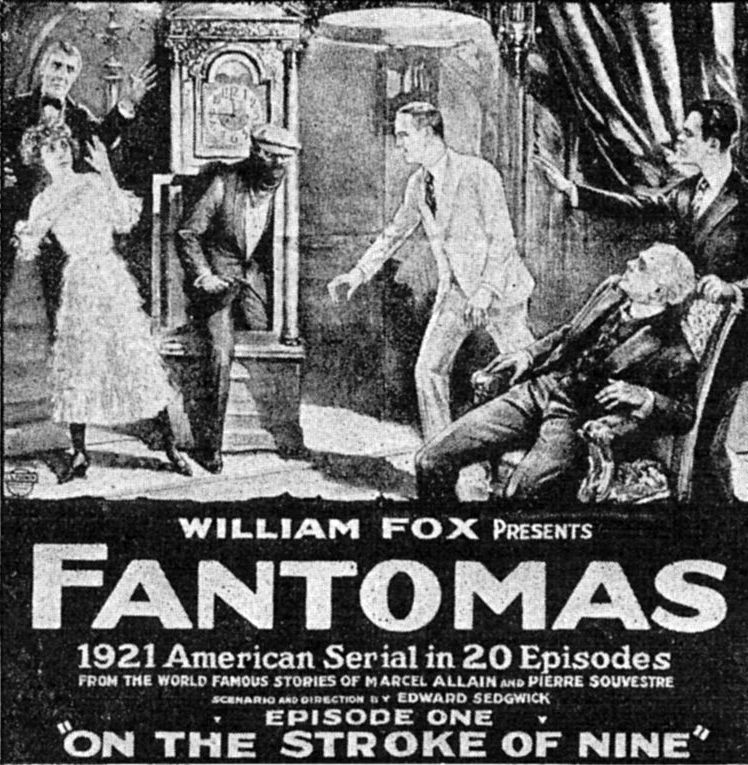 Advertisement for the first episode "On the Stroke of Nine" from Fantômas (1920), an American silent serial.